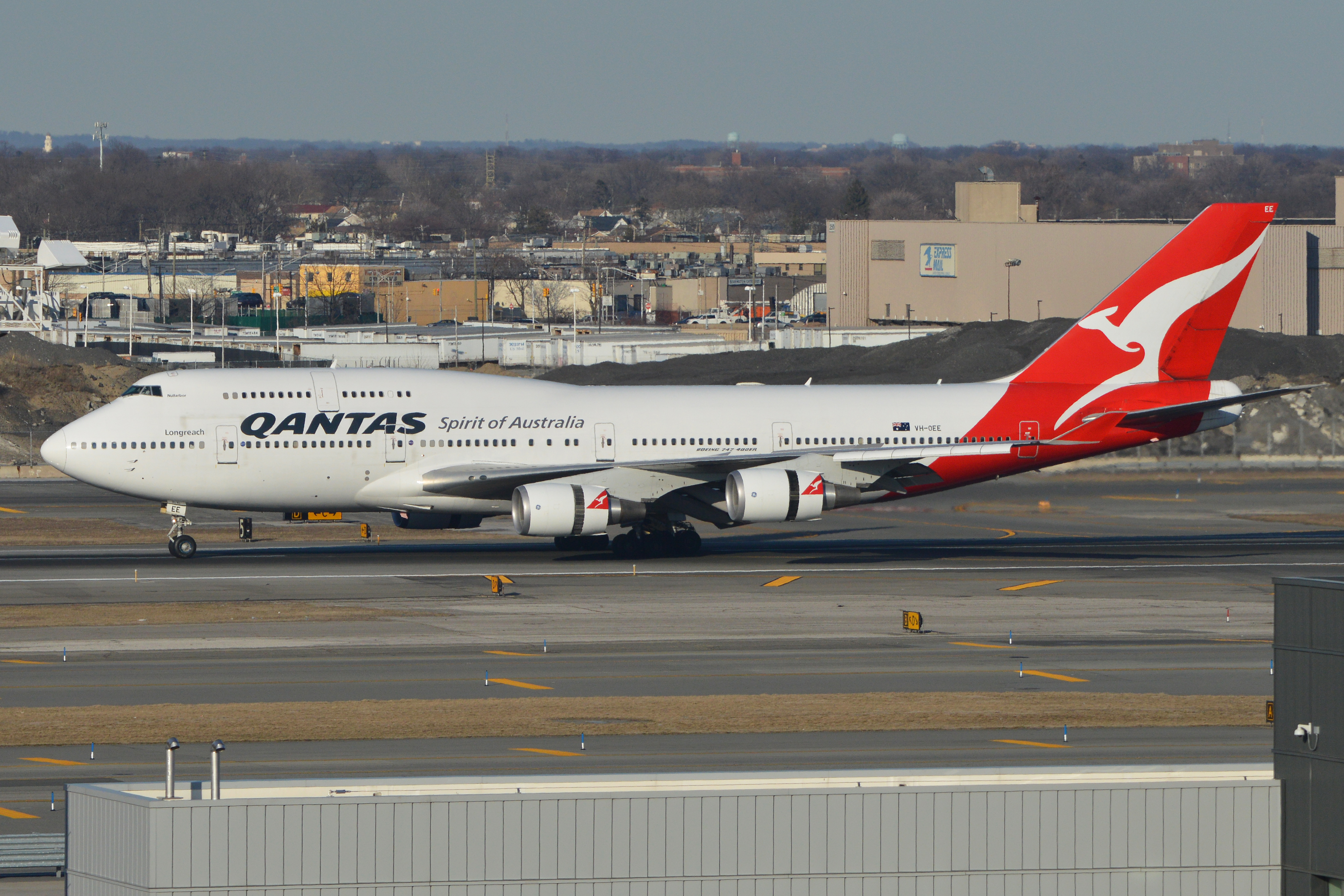 c/n 32909, l/n 1308. Built 2002. Seen rolling out after landing on flight QFA11 from Sydney via LAX. JFK Airport, New York. 6th March 2016